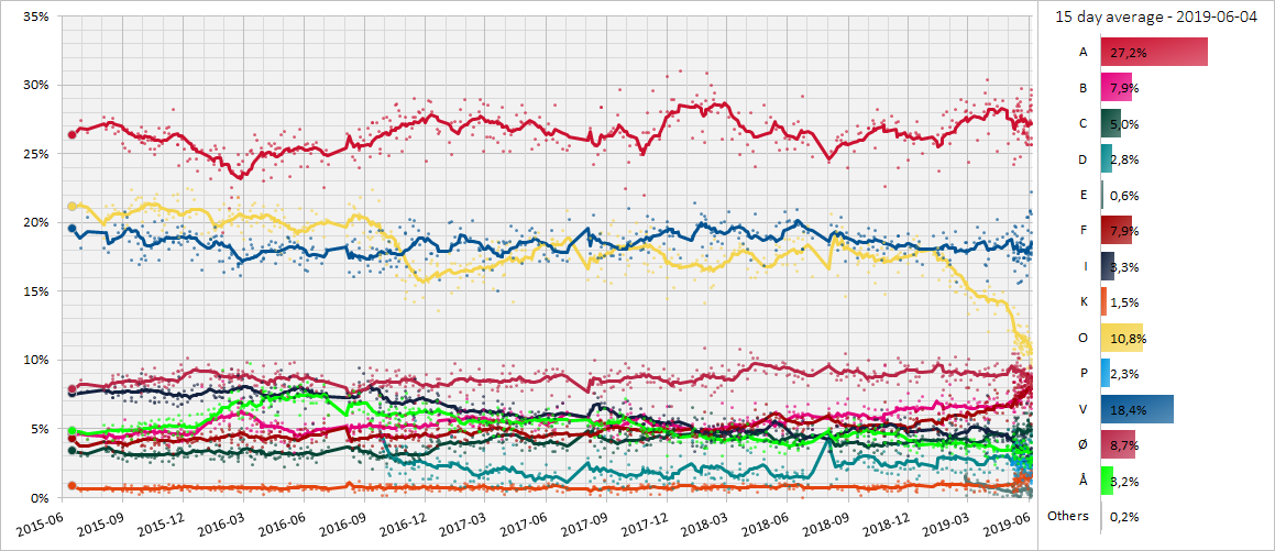 Graph showing a 30 day moving poll average (15 day moving average from 2019-05-06, 30 days before the election day) of the Danish opinion polls towards the general election in 2019